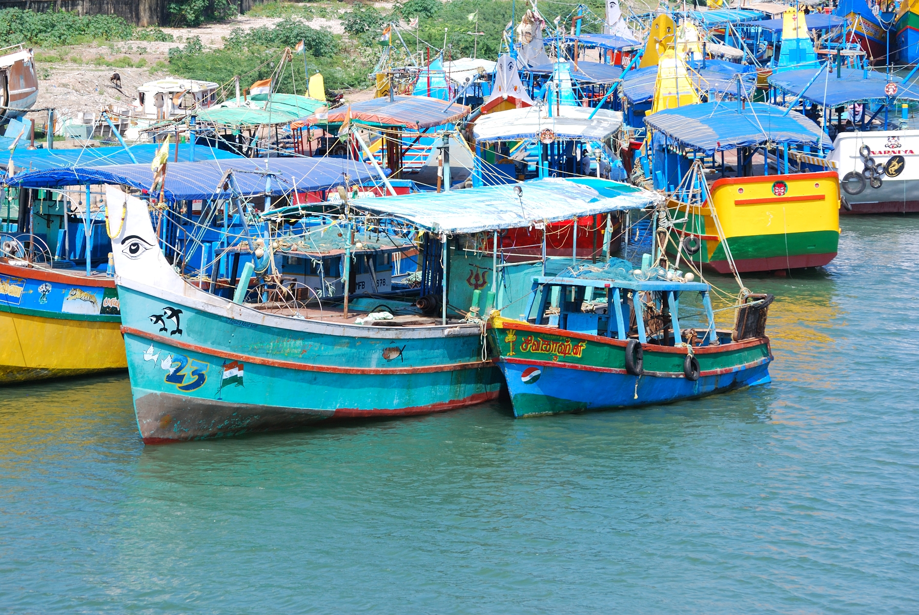 Baots near the Old Town of Cuddalore near the river mouth. Cuddalore is situated in the south Indian state of Tamil Nadu.